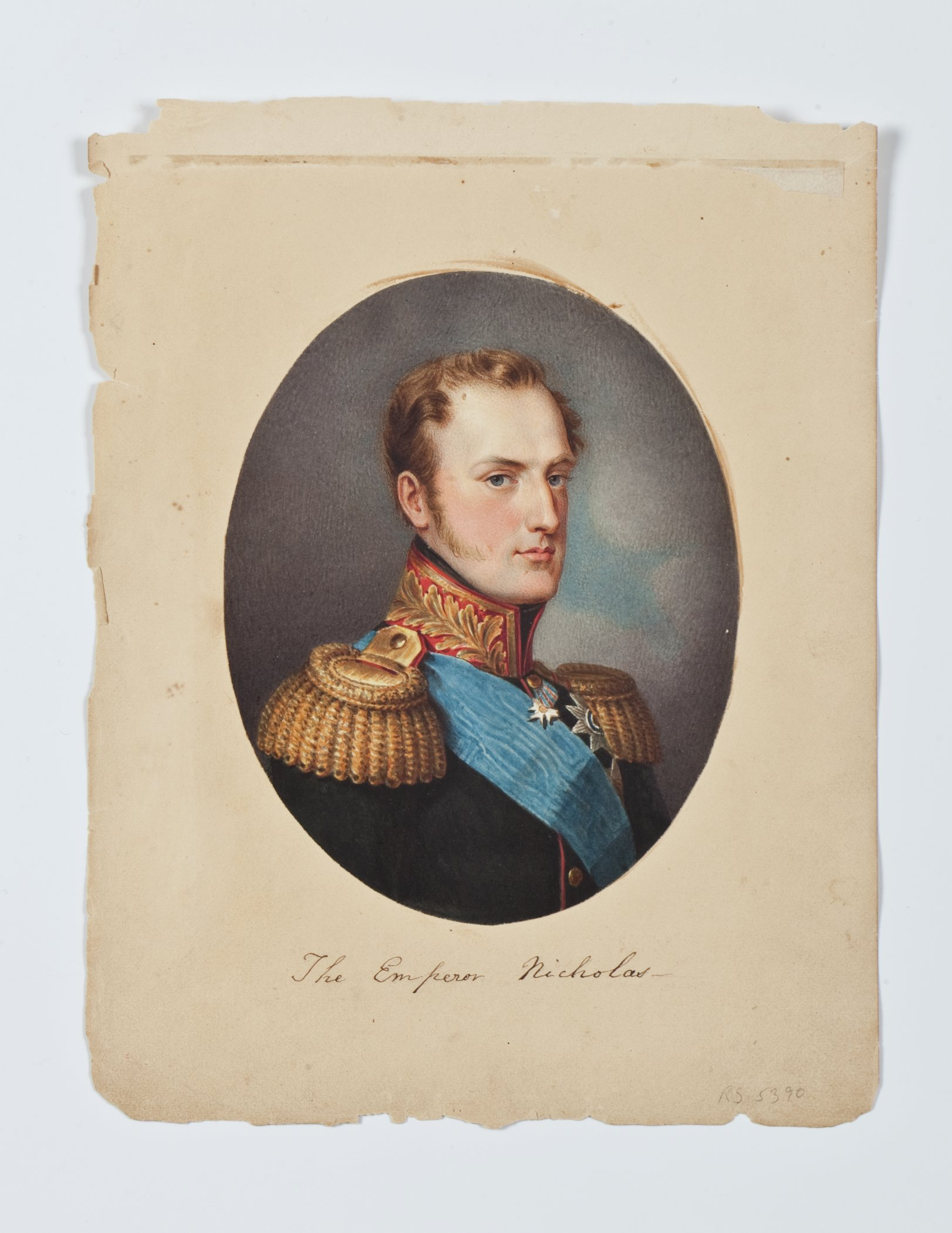 The Middleton Watercolor Album consists of a collection of 45 watercolor portraits bound in leather covers with neo-gothic embossing and a gilt bronze clasp in the same style. The album relates to the Middleton family of South Carolina, from which it descended until Hillwood purchased it in 2004. Williams Middleton—who was secretary to his father, Henry Middleton, the American minister to St. Petersburg from 1820 to 1830—assembled this album. The artist of many of the watercolors, most of which are unsigned, is likely Middleton's sister, Maria Henrietta, who studied painting during her years in St. Petersburg with her governess, Madame Mathes, who also painted miniatures. Among the portraits are Russians and people in the foreign community who were close associates of the Middleton family. Their portraits provide an extraordinary commentary on the fashion and hairstyles of the 1820s.